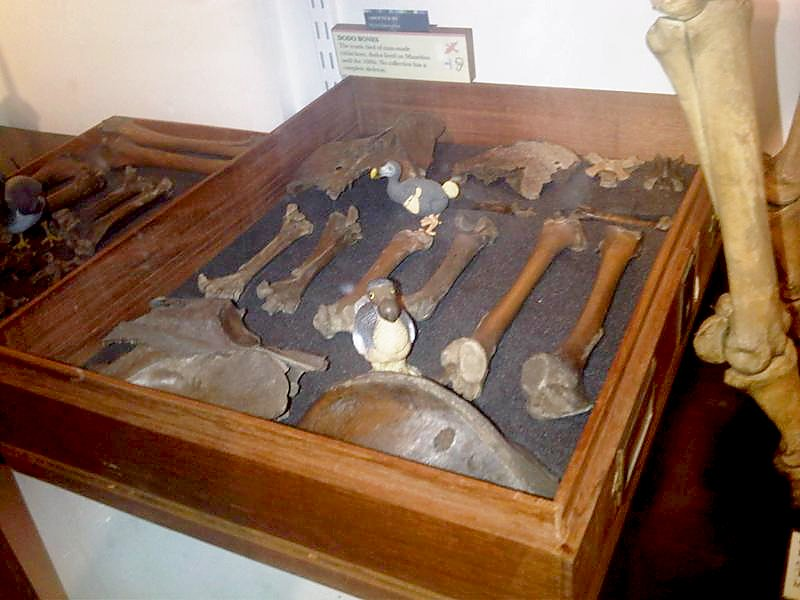 Dodo (Raphus cucullatus) bones and model in Grant Museum of Zoology, London, England.